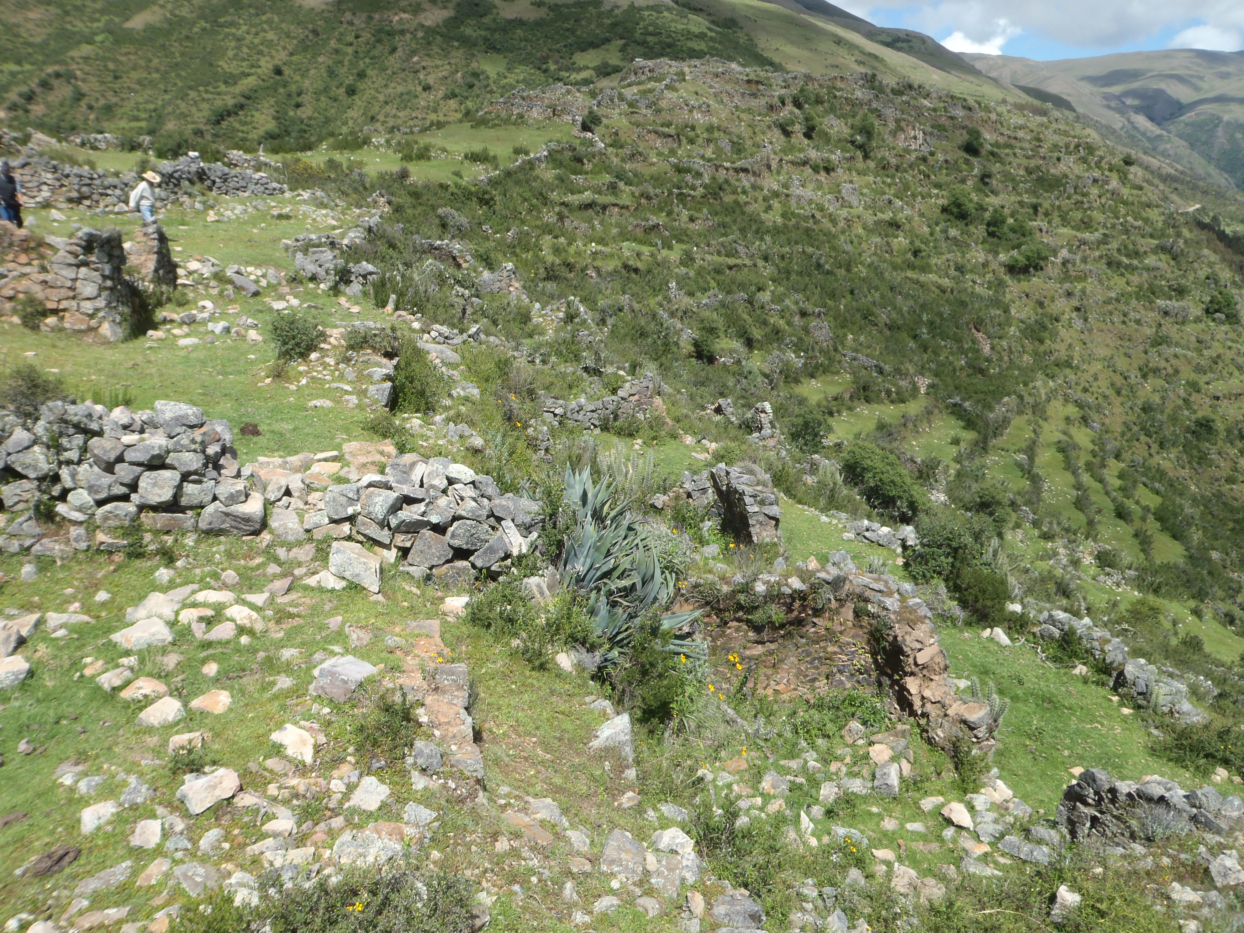 Yanaca is a pre-inca ruins group situated in Peru, Apurimac region, Yanaca district. Tunay Kassa is one of these ancient village, situated at 4 km from Yanaca village. This picture represents a large view of Tunay.